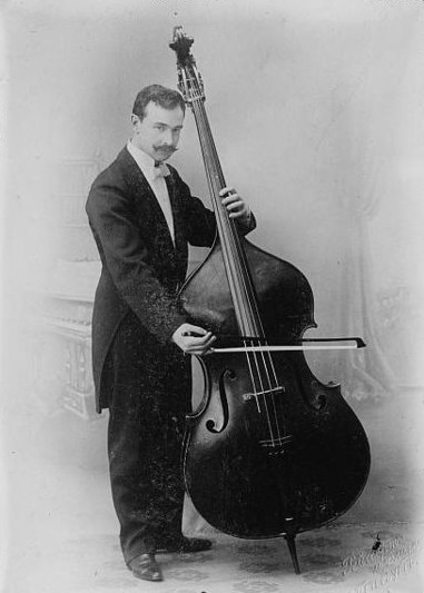 Sergei Koussevitzky (1874 – 1951), conductor, composer, and double-bassist